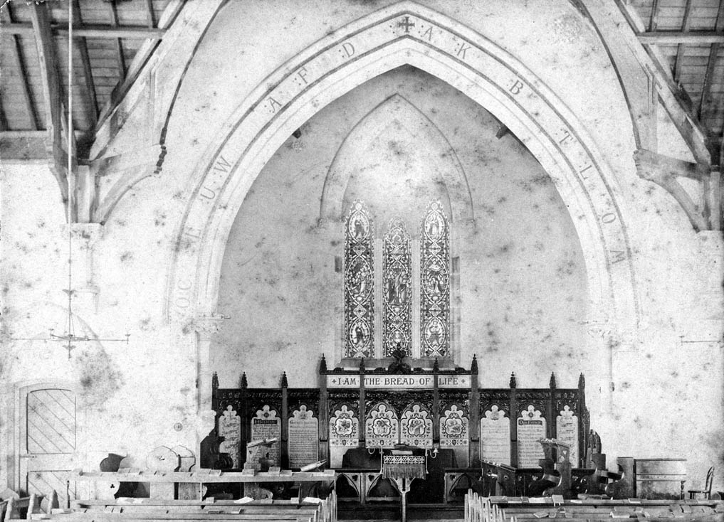 The interior of St John the Baptist's Anglican Church, Ashfield, NSW, Australia. The (all-caps) text around the archway reads "O Come Let Us Worship And Fall Down And Kneel Before The Lord Our Maker" but the blue lettering is difficult to make out on the sensitized albumen used as a photographic material.